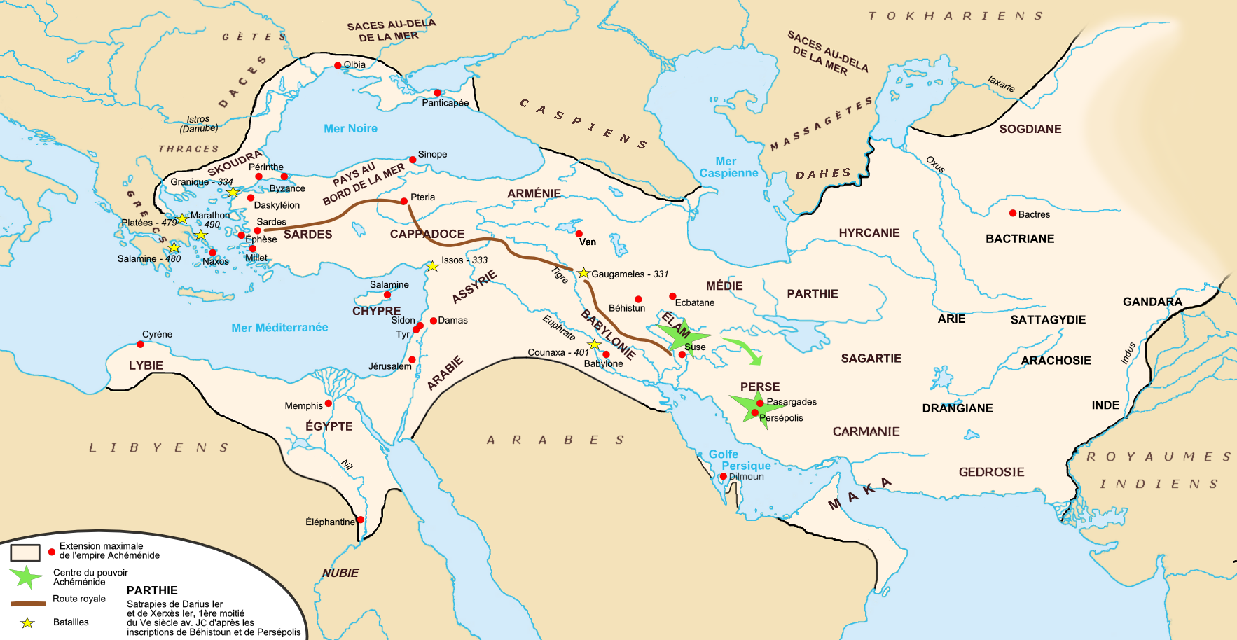 Date24 August 2006 (original upload date)SourceOwn workAuthorFabienkhan Licensing[edit]